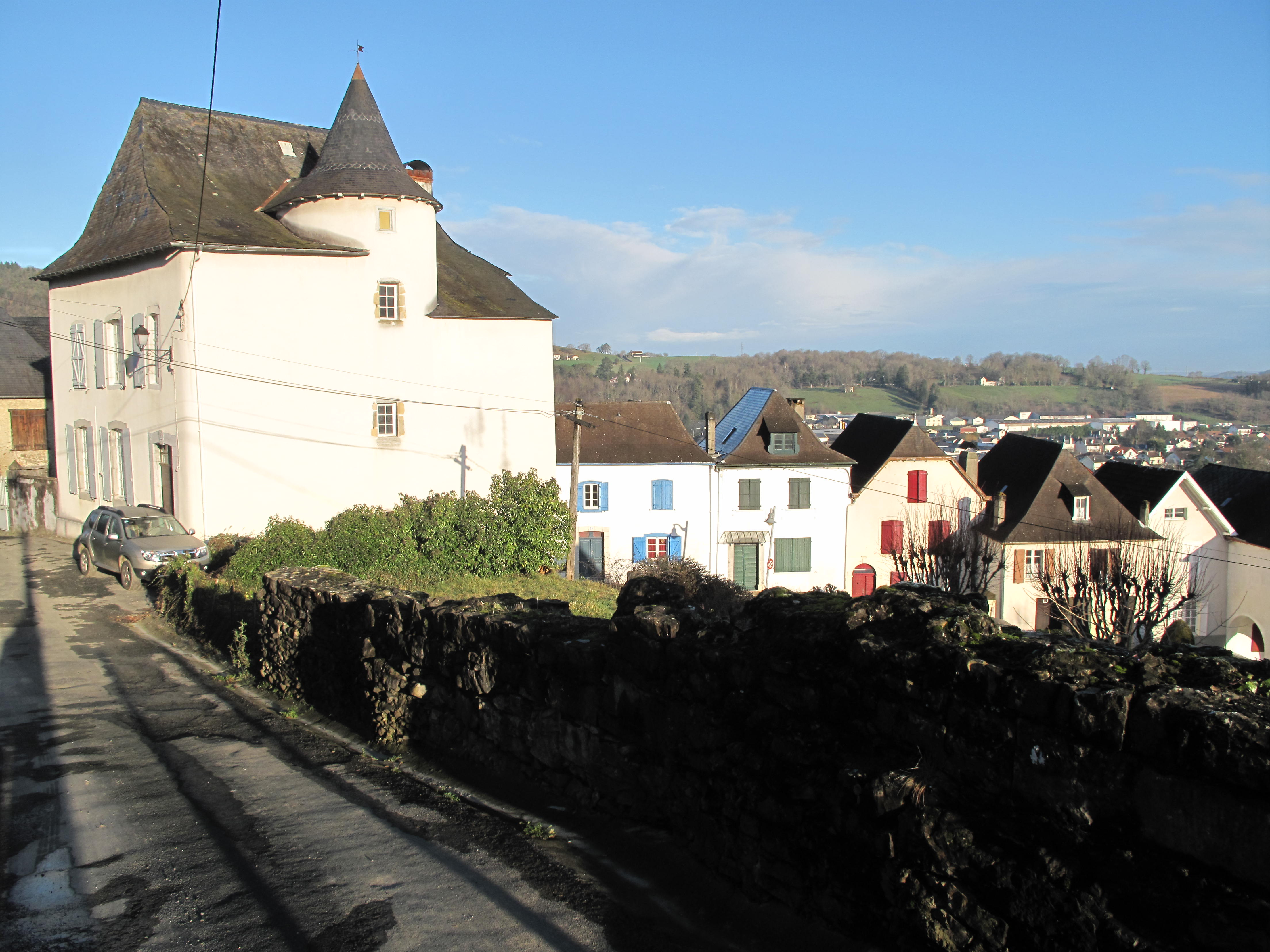 The manoir de Bela and the houses of the Haute-Ville in Mauléon-Licharre, (Pyrénées-Atlantiques, France). Seen from the street of the castle.